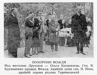 Funeral of Yevhen Konovalets in Rotterdam